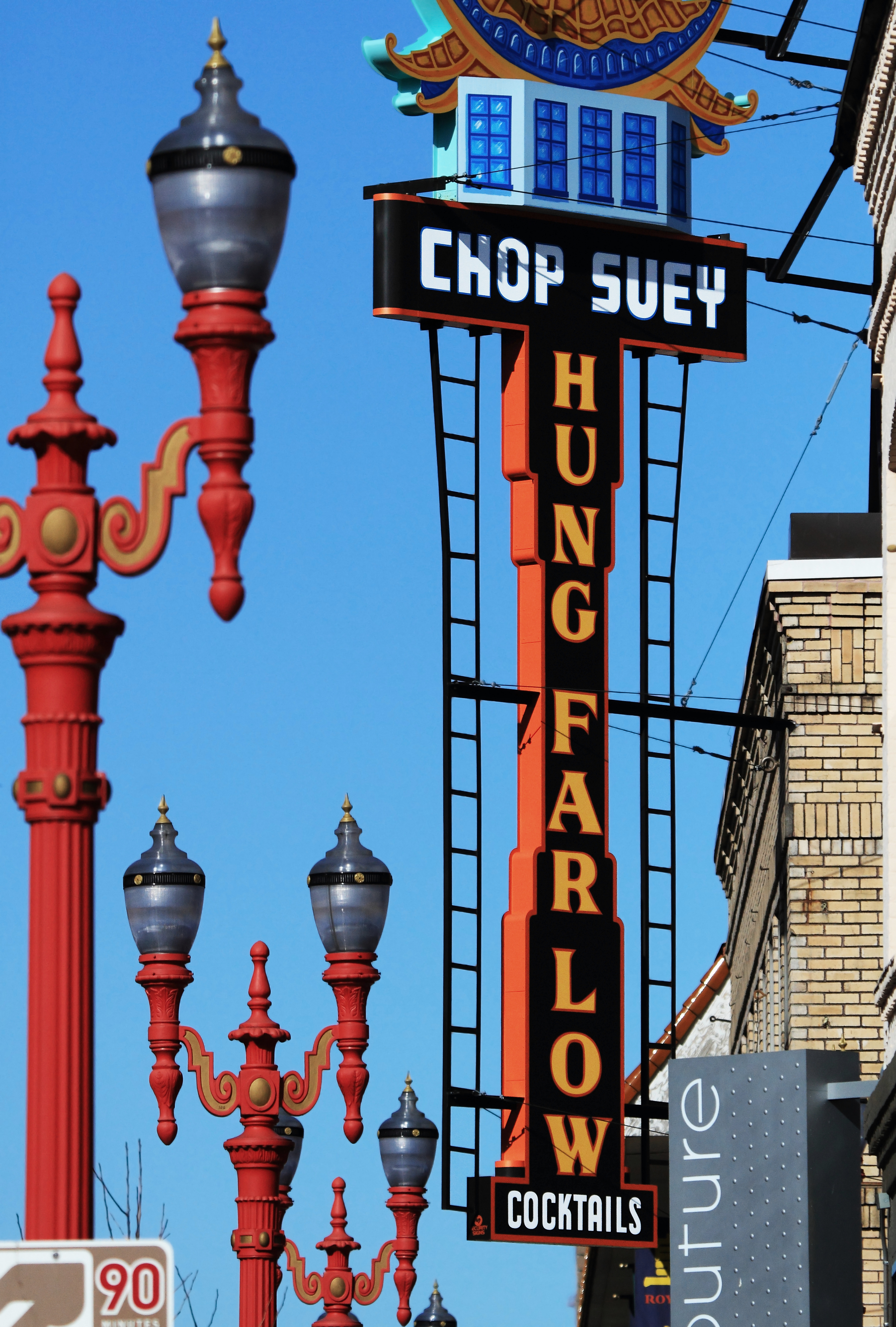 Nestled in the heart of China Town in Portland, Oregon. I heard their freaking “cocktails” are AMAZING!!!